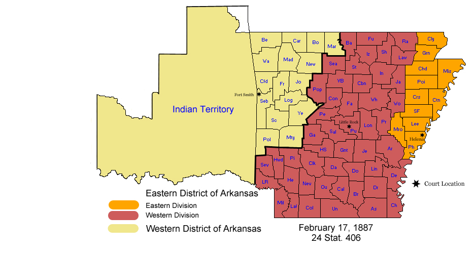 Arkansas districts - Feb 17,1887